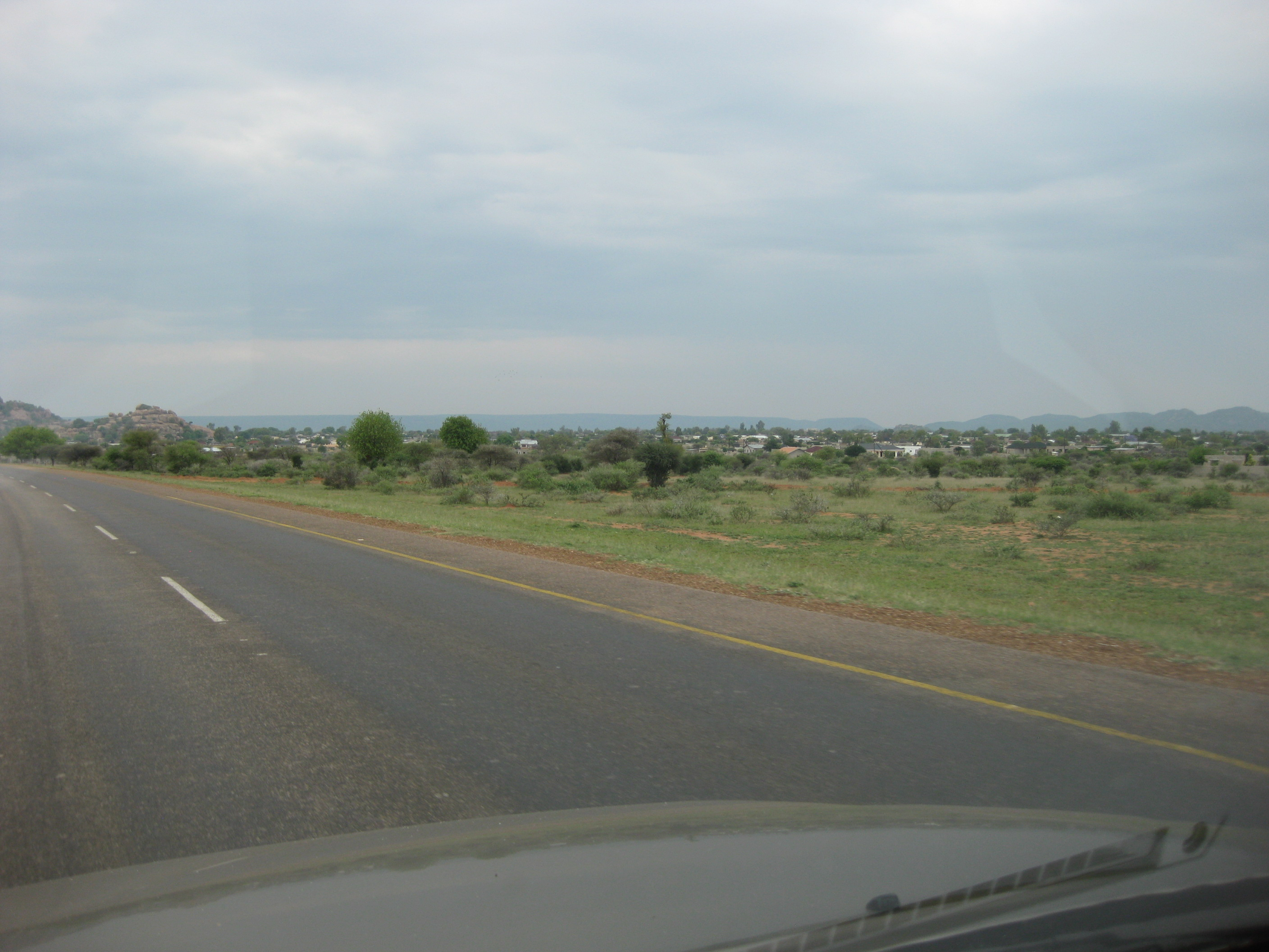 Picture taken by me, October 2009.